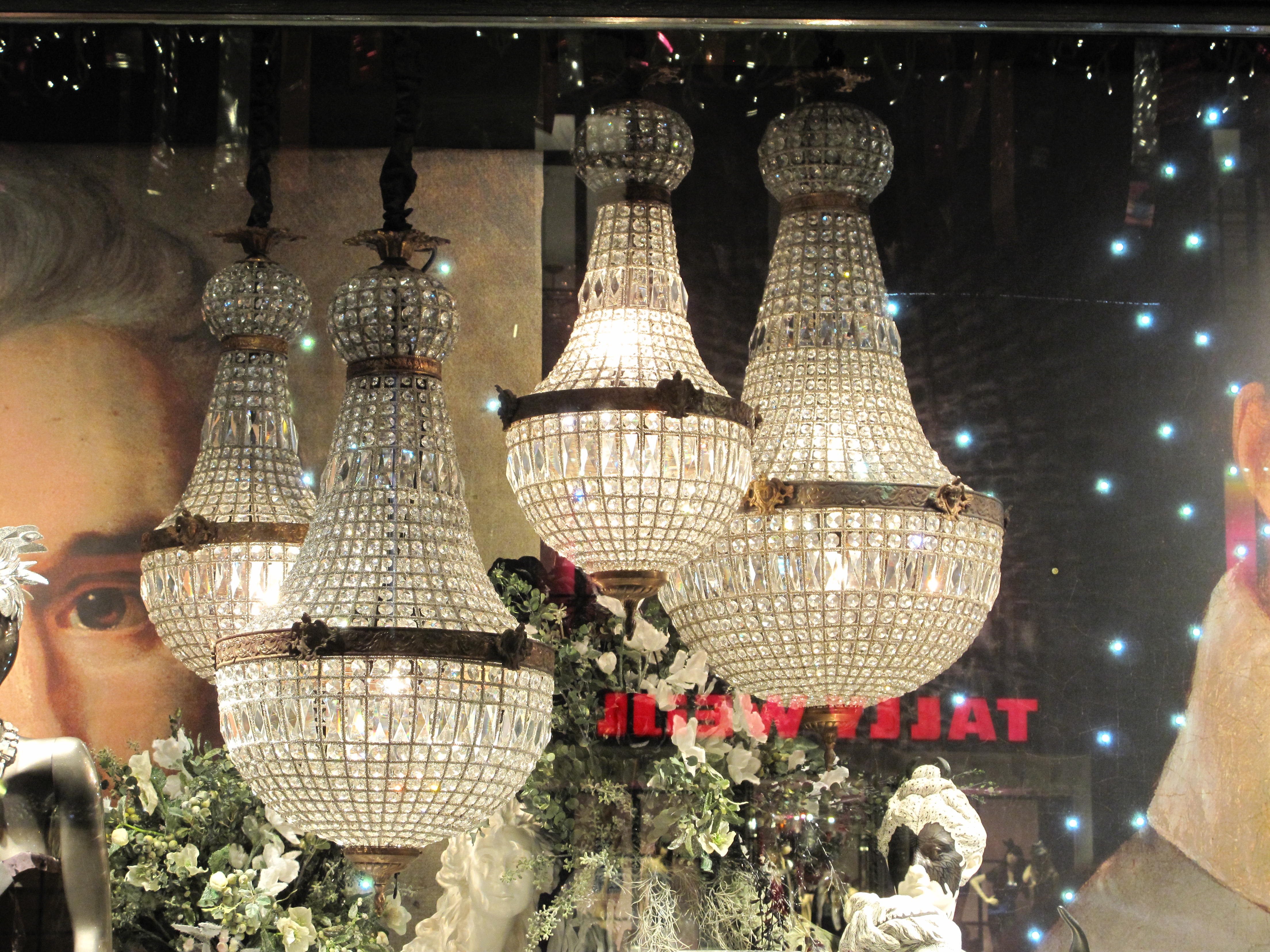 Montgolfiere chandeliers (chandelier with shape of "montgolfiere", the early hot air balloon) in a shop window.